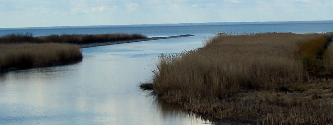 Emajõgi with Võrtsjärv in Southern Estonia.